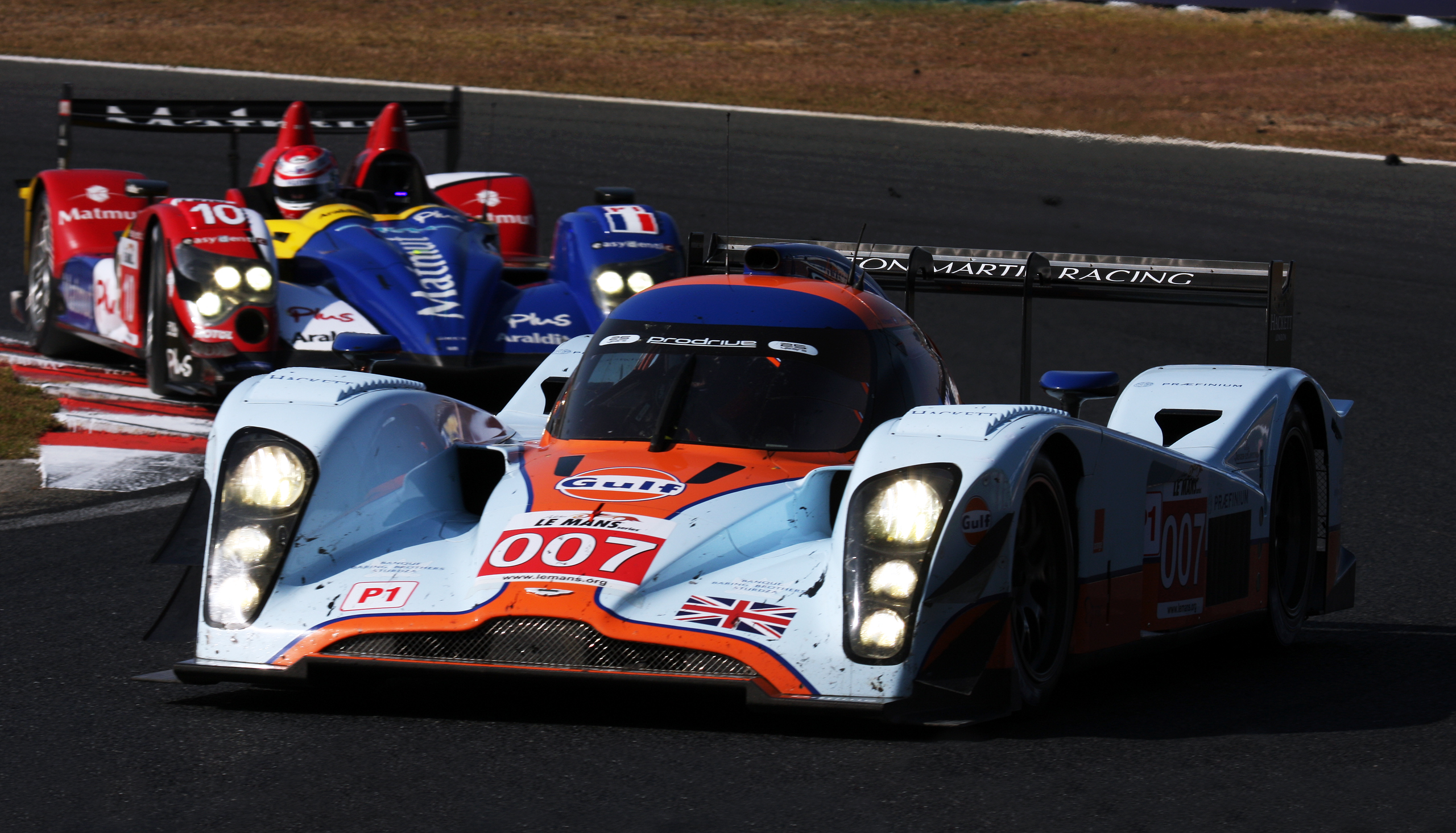 Asian Le Mans Series 2009 1000km of Okayama: Lola-Aston Martin B09/60 (Aston Martin Racing)